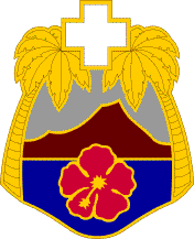 Tripler Army Medical Center distinctive unit insignia from [1]